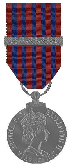 The George Medal with bar